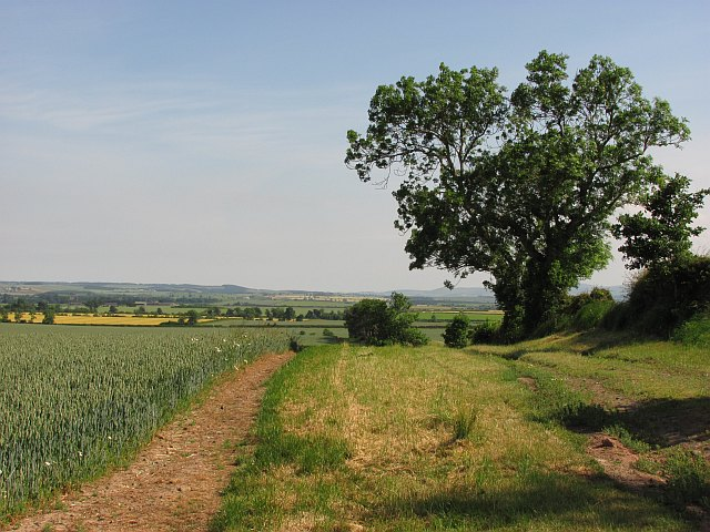 Wheat, Hilton